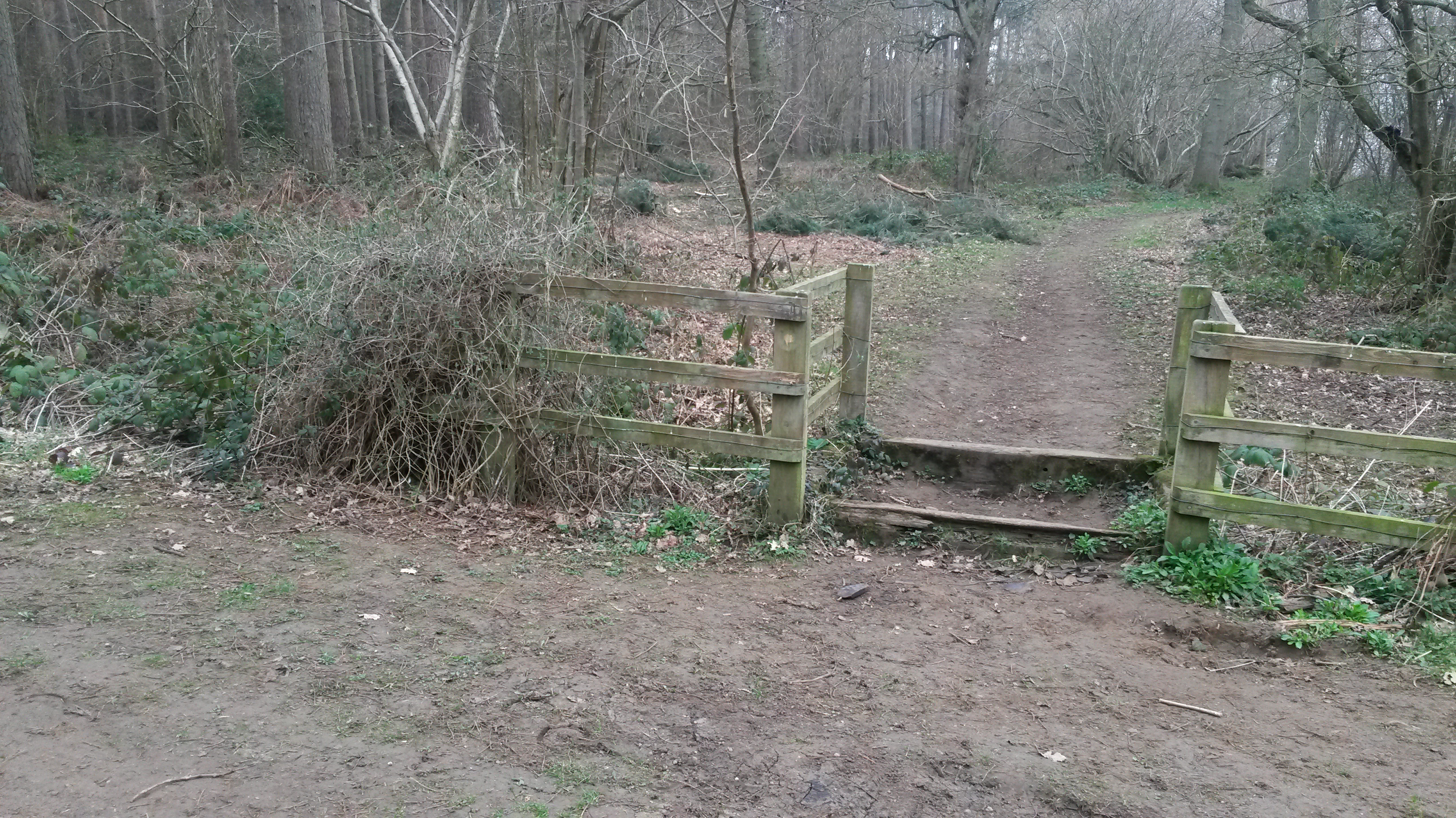 Photo of one of the various entry points to Old Wood, Skellingthorpe.